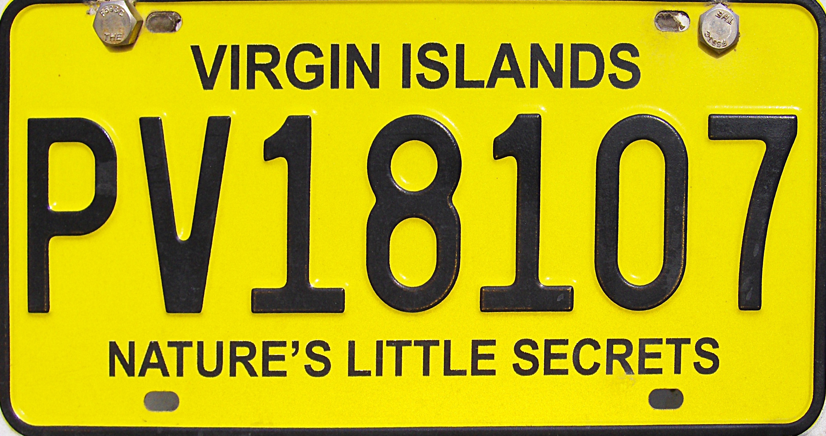 A British Virgin Islands license place